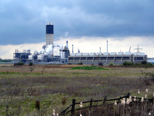 Conoco-Philips Power Station.